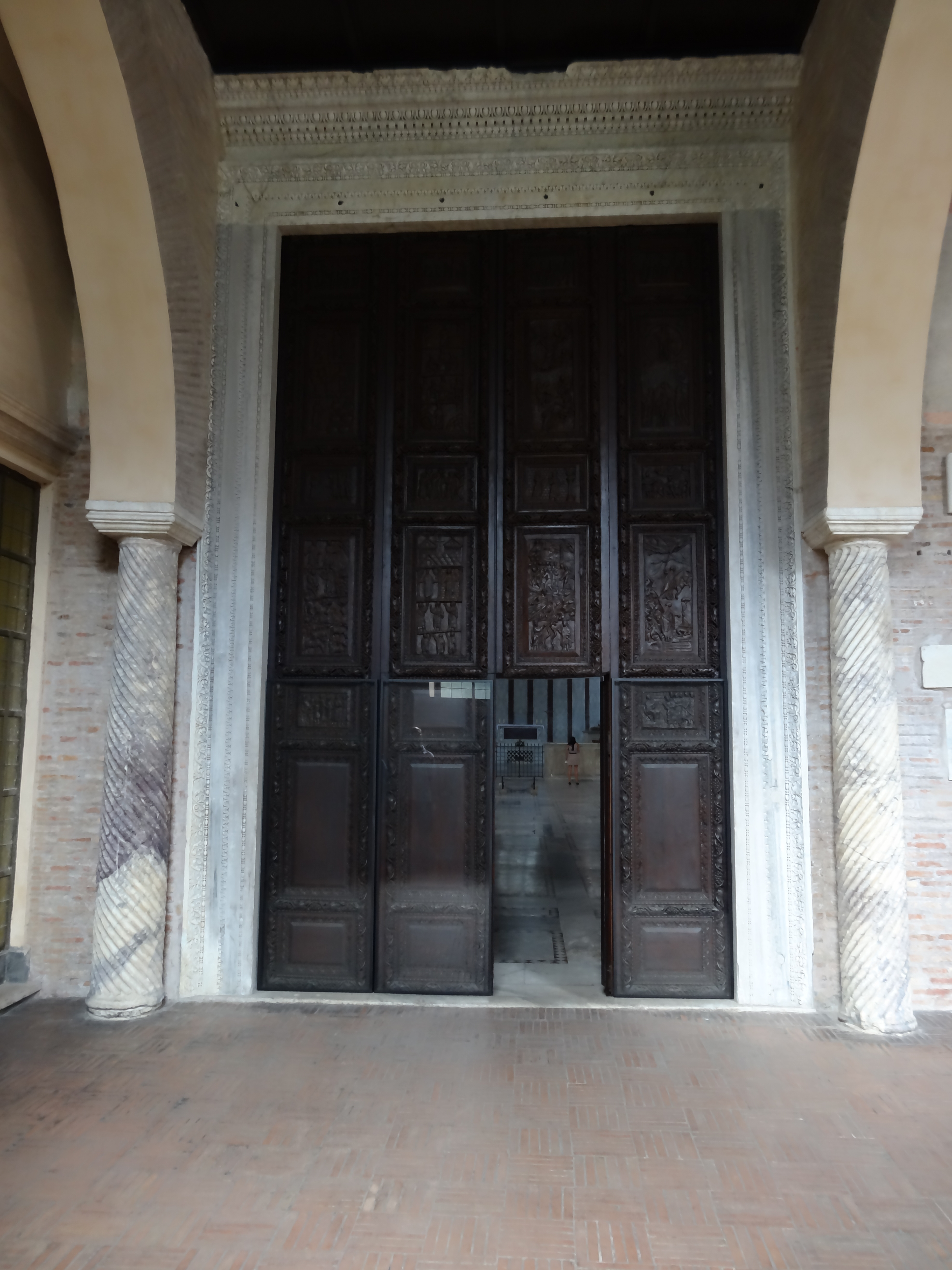 santa sabina door